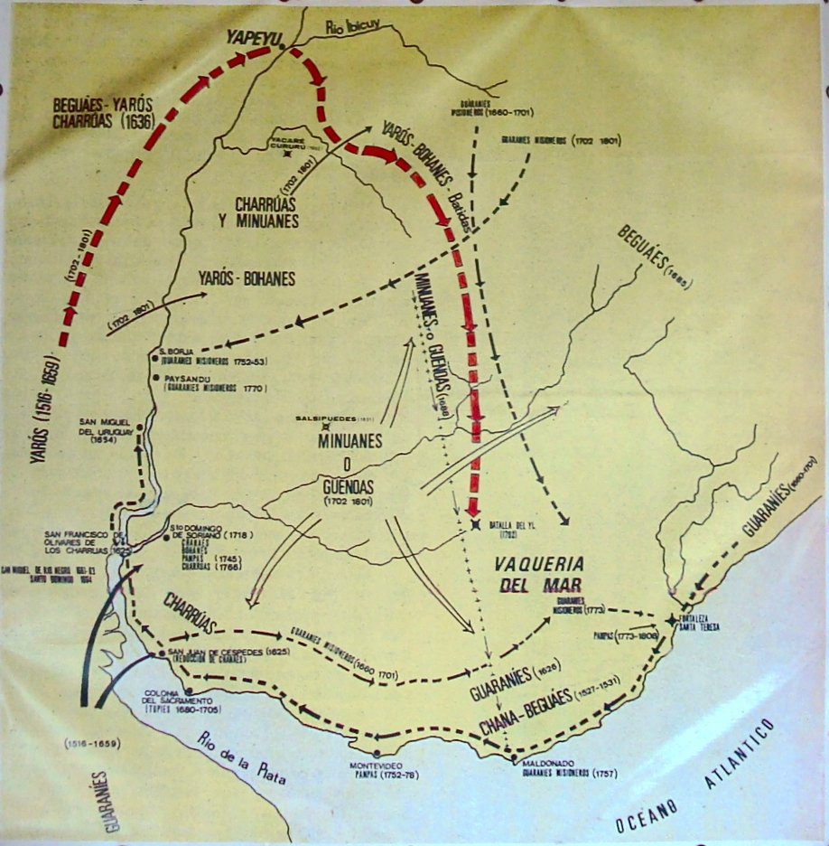 Map in the guacho museum near Fuerte San Miguel in Rocha Department, Uruguay, showing the history of the tribes of indigenous people in Uruguay.